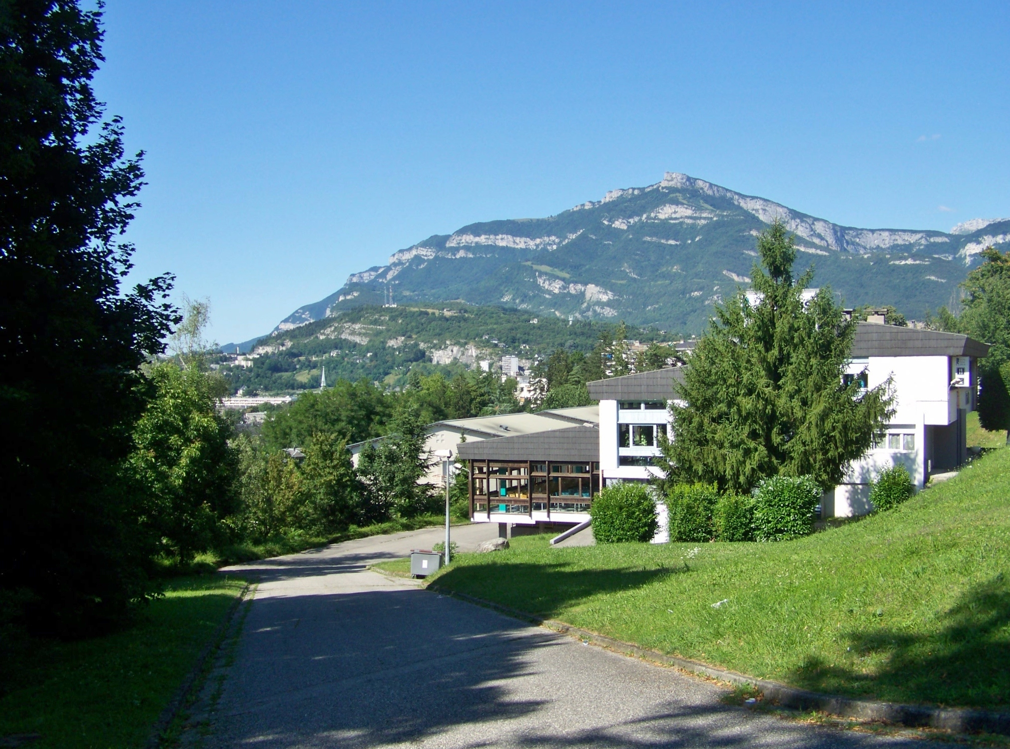 University cafeteria and other buildings of Université de Savoie site of Jacob-Bellecombette on the heights of Chambéry (background), in Savoie, France.